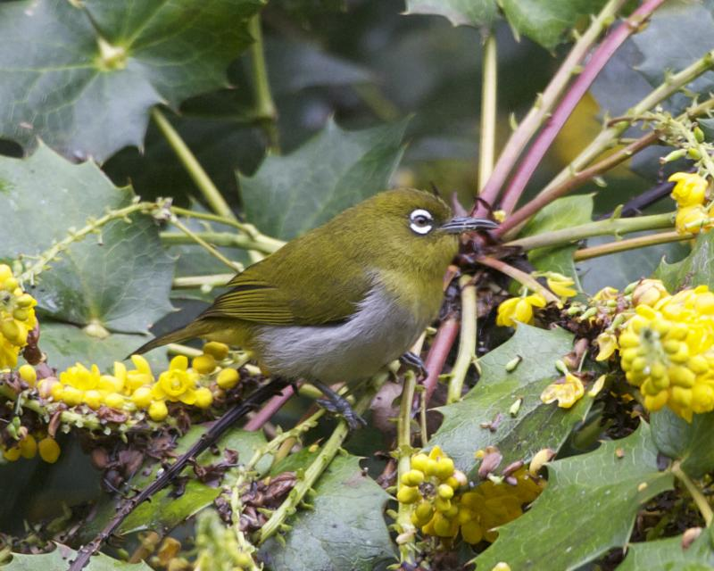 Ceylon White-eye aka Sri Lanka White-eye Zosterops ceylonensis Nuwara Eliya, Sri Lanka 6th. February 2011 Distribution: 690V9416